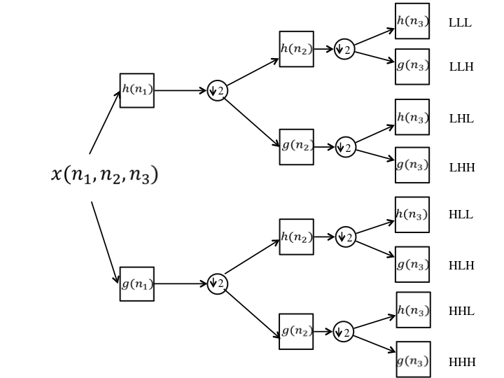 filterbank for 3D analysis of multidimensional separable DWT